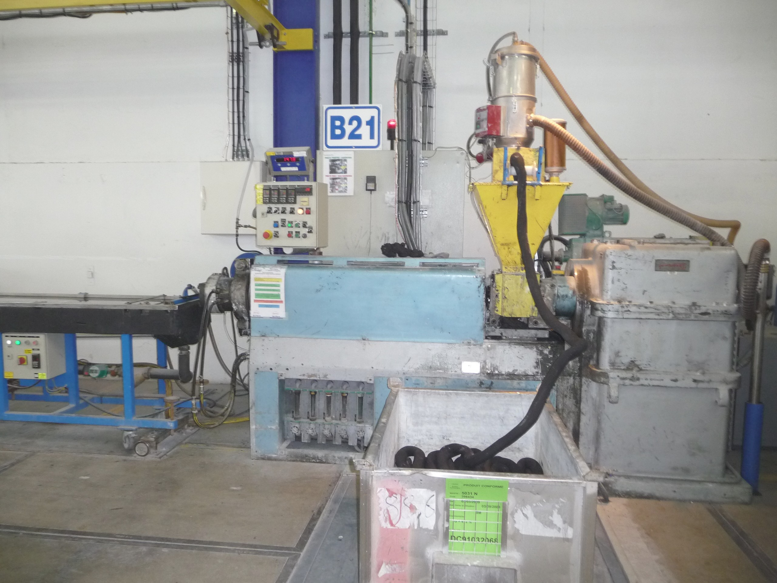 Extruder and cooling water bath. A thermoplastic rod feeds the extruder through the feed hopper.